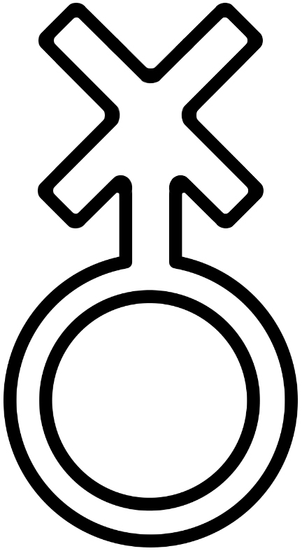 Sign for Non-Binary Gender Identity